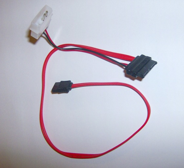 Slim SATA cable used to connect a slim optical unit to motherboard's SATA interface getting power from power supplies with Molex connectors